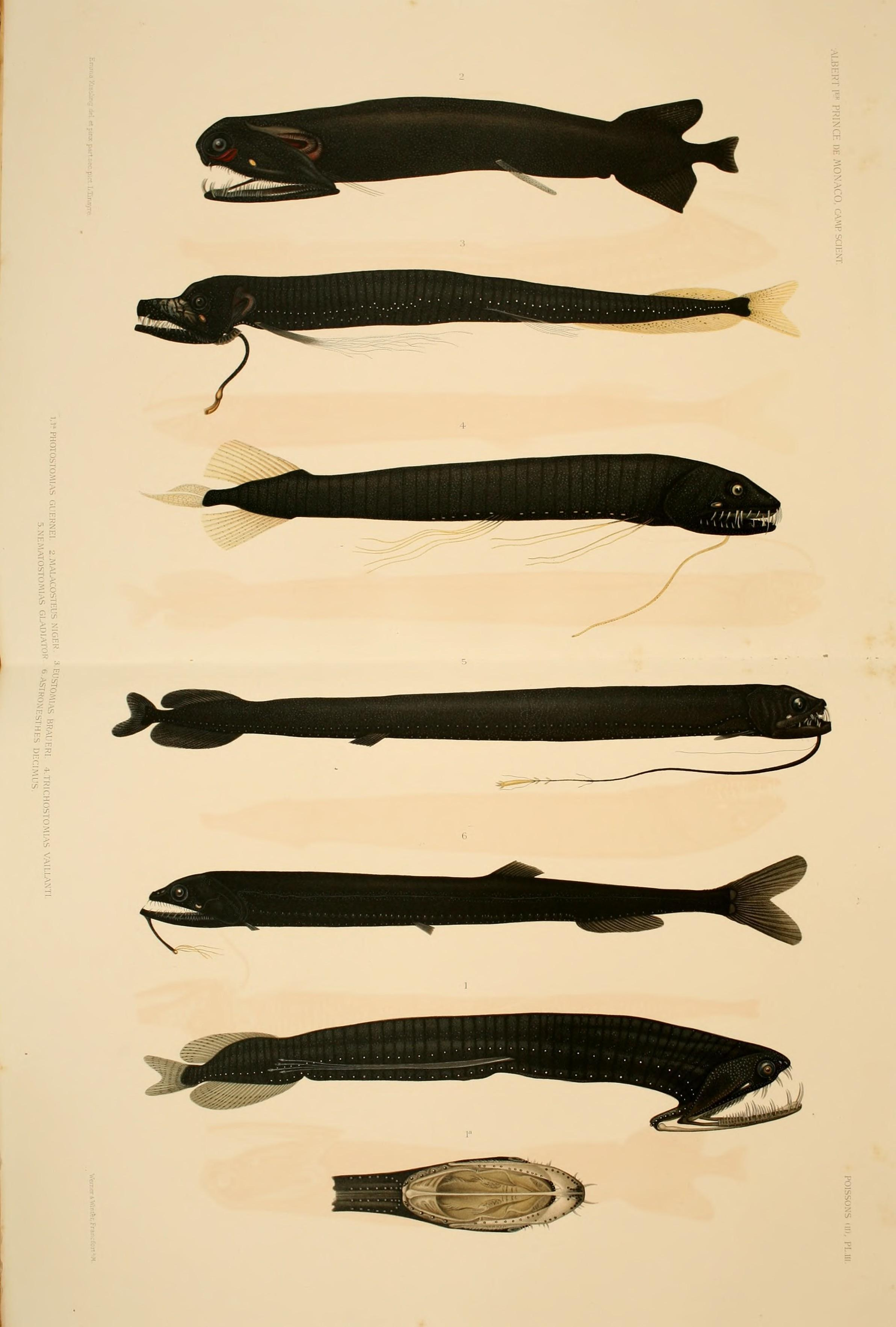 Top to bottom: Fig. 1., 1a. Photostomias guernei Collett Fig. 2. Malacosteus niger (Ayres) Fig. 3. Eustomias braueri Zugmayer Fig. 4. Trichostomias vaillanti Zugmayer (= Bathophilus vaillanti) Fig. 5. Nematostomias gladiator Zugmayer (= Leptostomias gladiator) Fig. 6. Astronesthes decimus Zugmayer (= Rhadinesthes decimus)